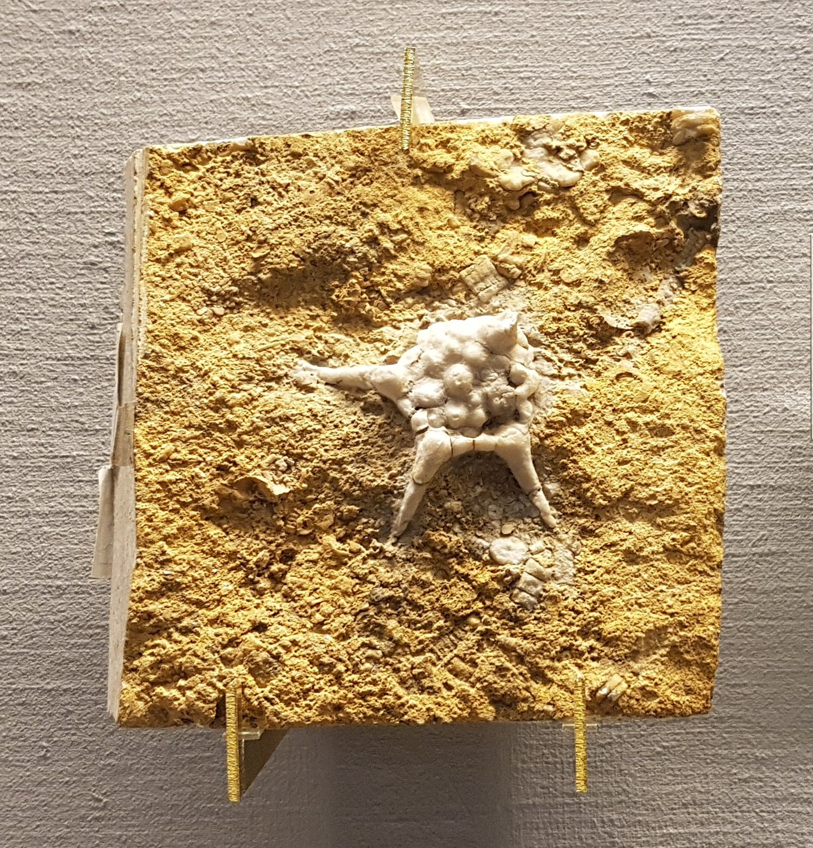 Doricrinus. Specimen at Natural History Museum, Gothenburg.